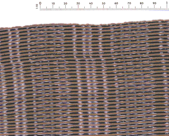 Fine warp ikat rebozo from Tenancingo Mexico